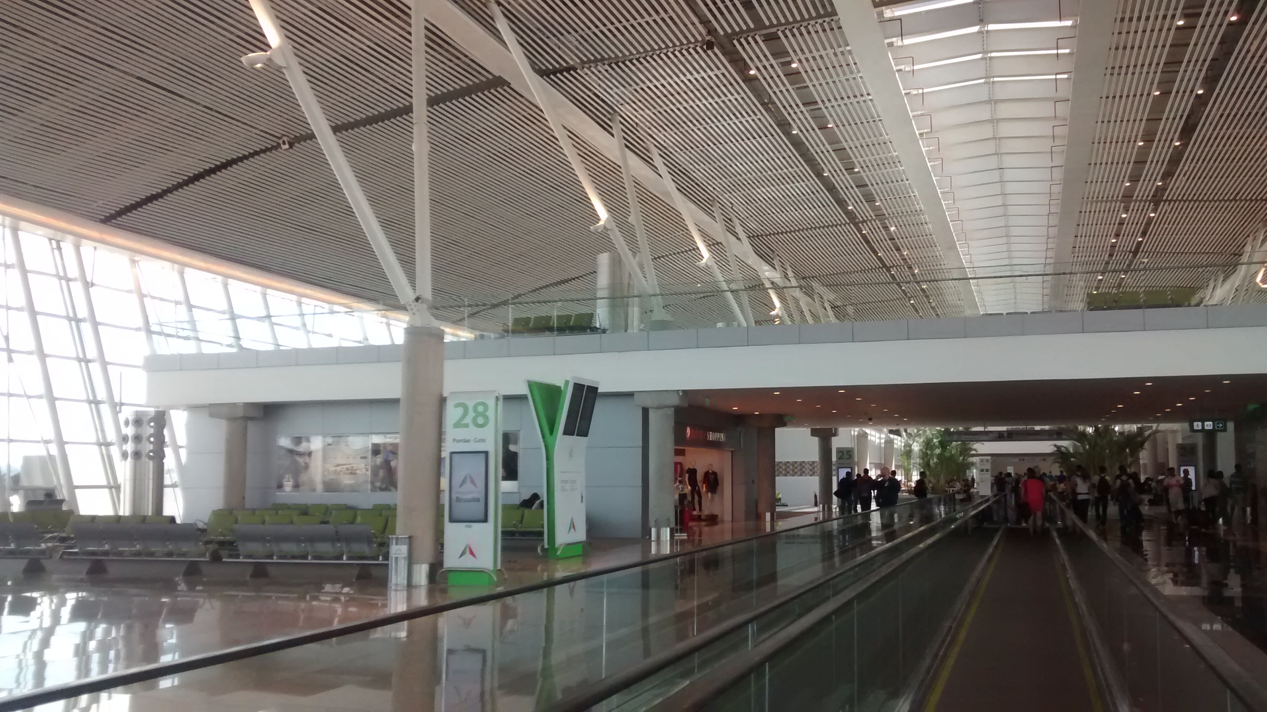 This is a picture of the South Concourse of Juscelino Kubitschek International Airport in Brasilia, Brazil. The concourse is connected to BSB's main terminal and opened in April 2014.